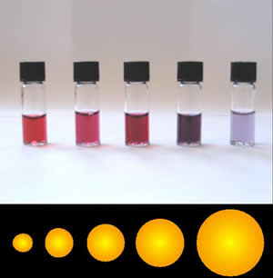 Picture of solution containing gold nanoparticles.